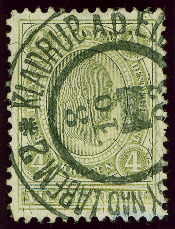 4 Kronen issue 1899 cancelled bilingual in 1903, Station, Klein type 137